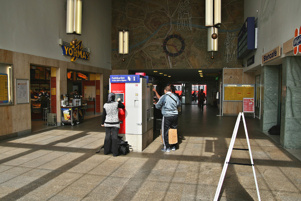 Station hall, Ingolstadt train station